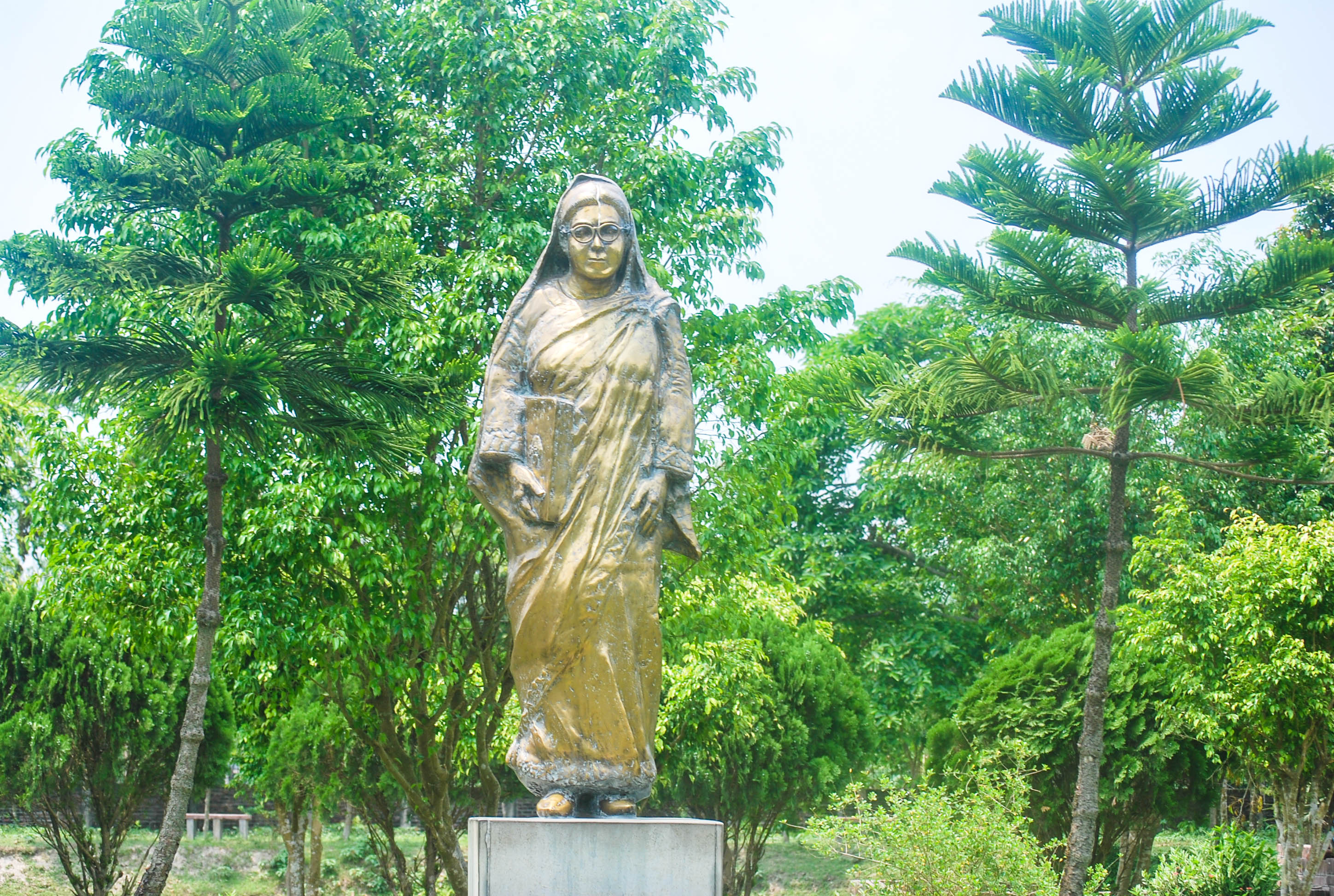 Birth Place of Begum Rokeya